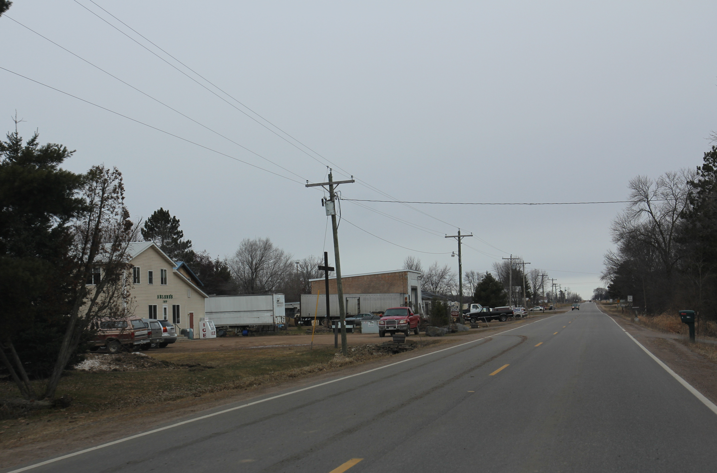 looking north at Williard, Wisconsin in Clark County on County G.